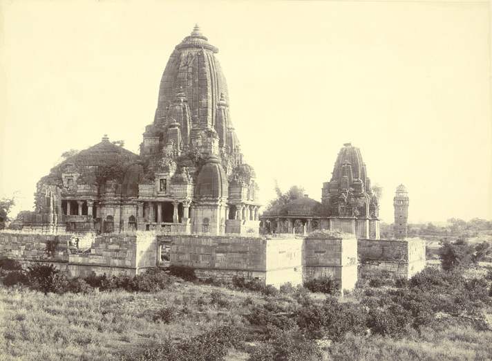 The temple of Mirabai in the Chittorgarh Fort